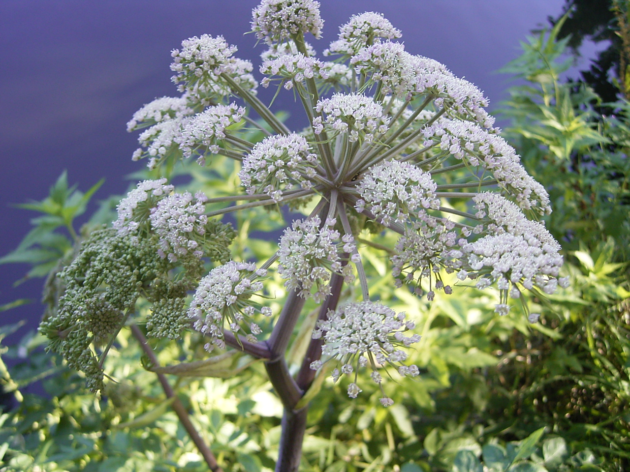 Deze foto toont een bloemhoofd van de de Gewone engwortel. Ik nam deze foto op 30 jil 2005 in park het kleine hout in Den Haag. This picture shows a flowerhead of Angelica sylvestris. I took this pic on July 30, 2005 in The Hague, Netherlands.